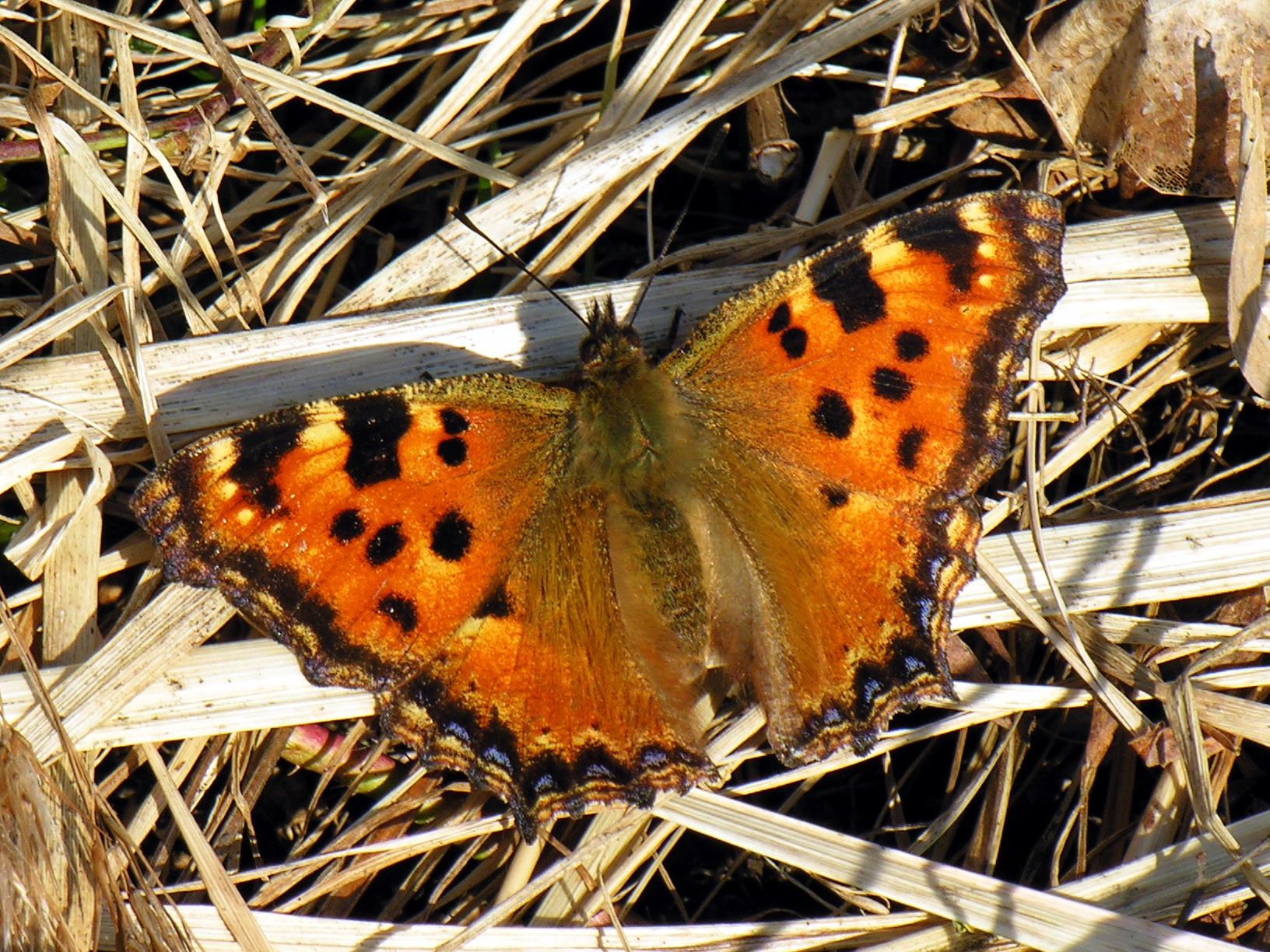 Nymphalis polychloros. Fam. Nymphalidae